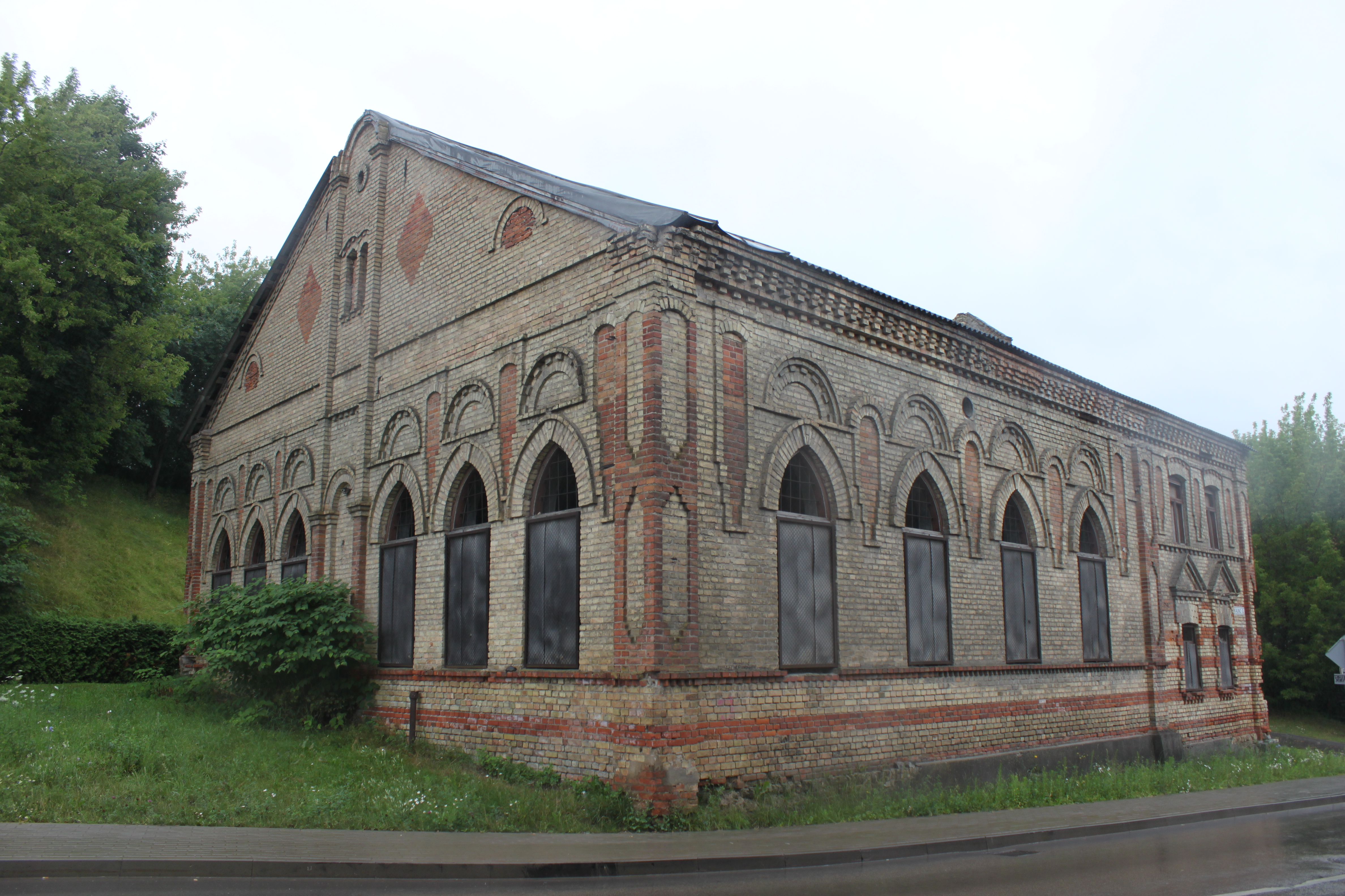 Alytus Synagogue, Lithuania